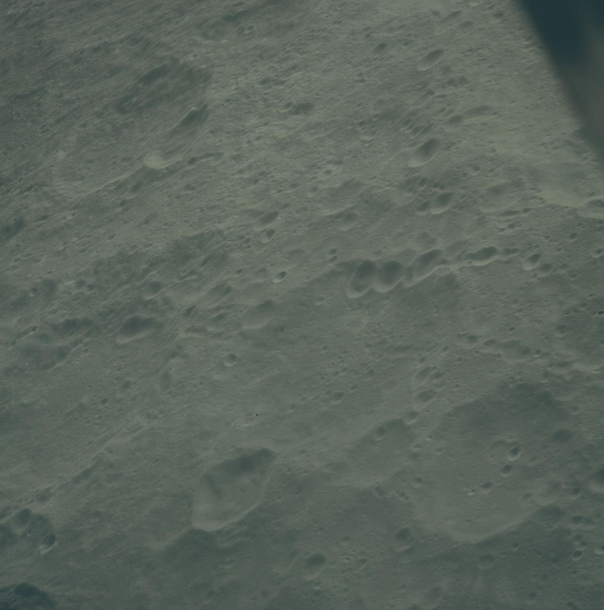 Oblique view of Love crater (near center) and vicinity, on the far side of the moon. Danjon and D'Arsonval are in upper left, and Prager is in lower right.